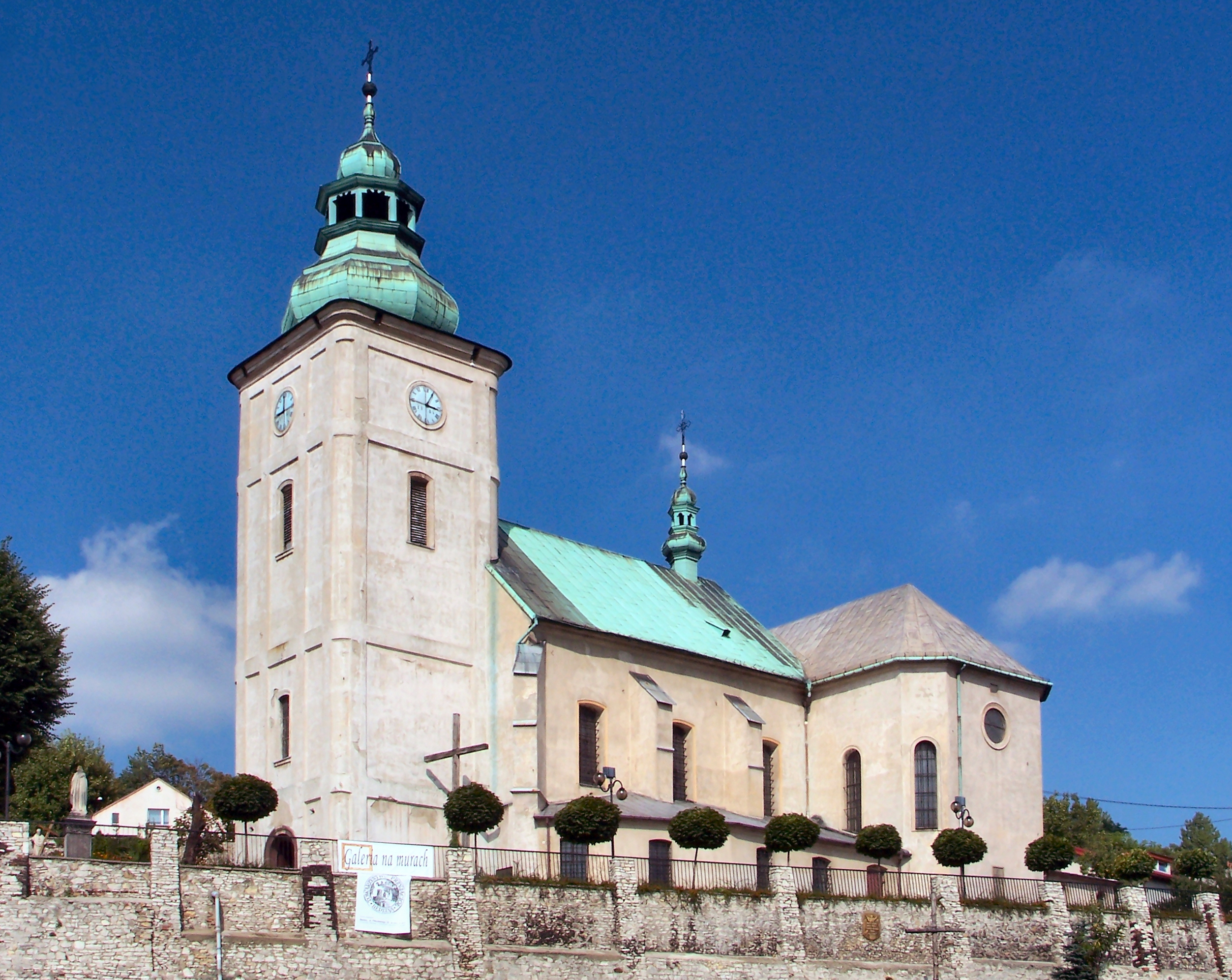 Church in Będzin (Poland).